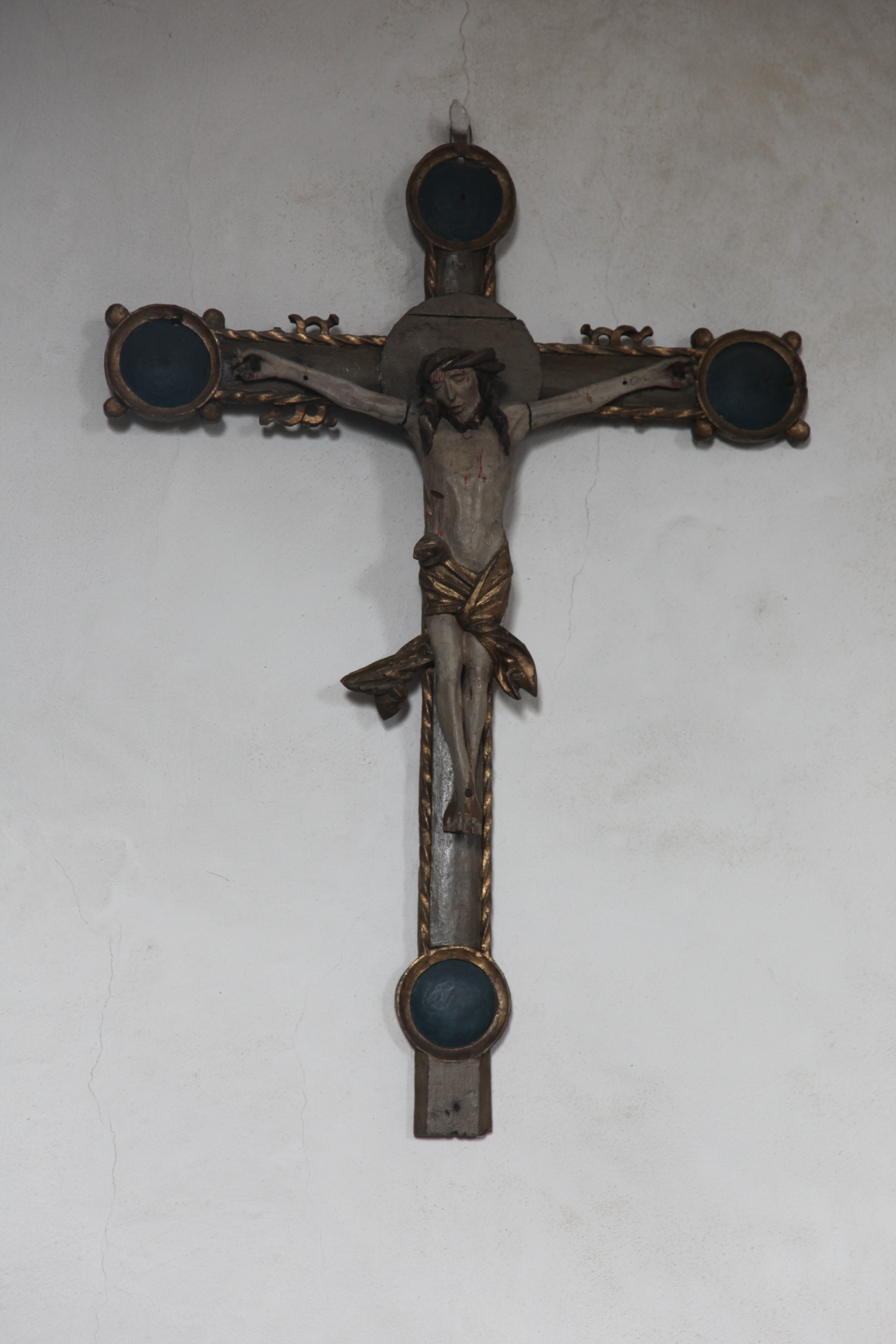 Ågerup church, Denmark